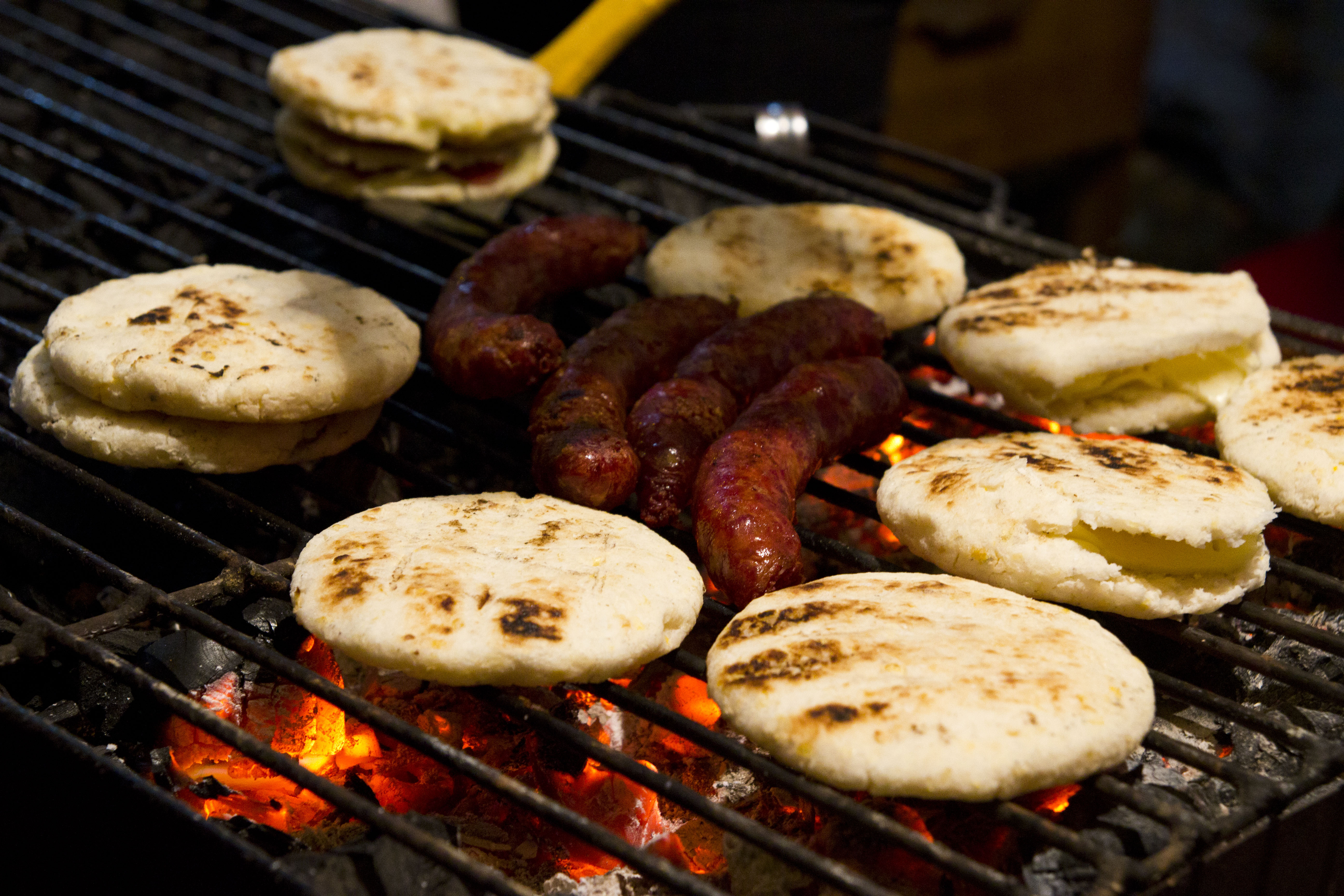 A perfect evening snack in Bogota. There are many different varieties of arepa in Colombia. These were on the drier side and were served with a whole, grilled chorizo.